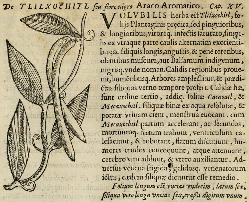 Franciscus Hernandez, Rerum medicarum Novae Hispaniae thesaurus (1628), p. 38 detail showing vanilla